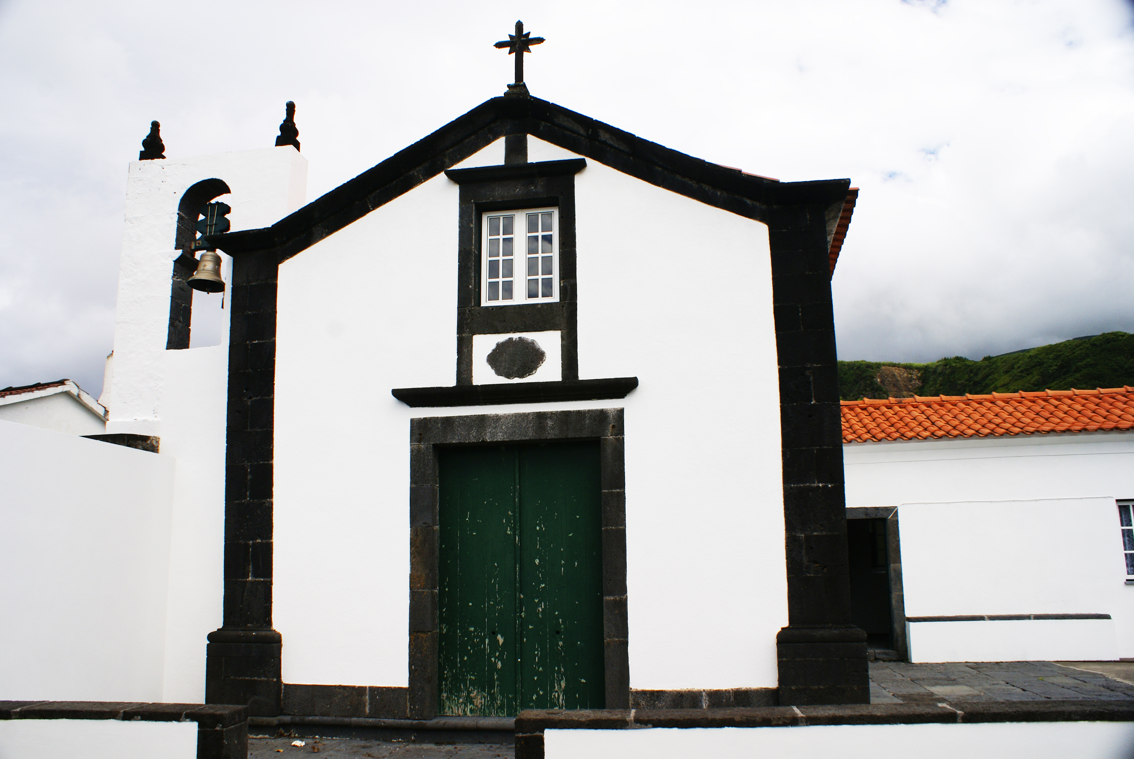 Front façade of the Chapel of Nossa Senhora da Penha de França, Praia do Norte, Horta, Faial (Azores), Portugal